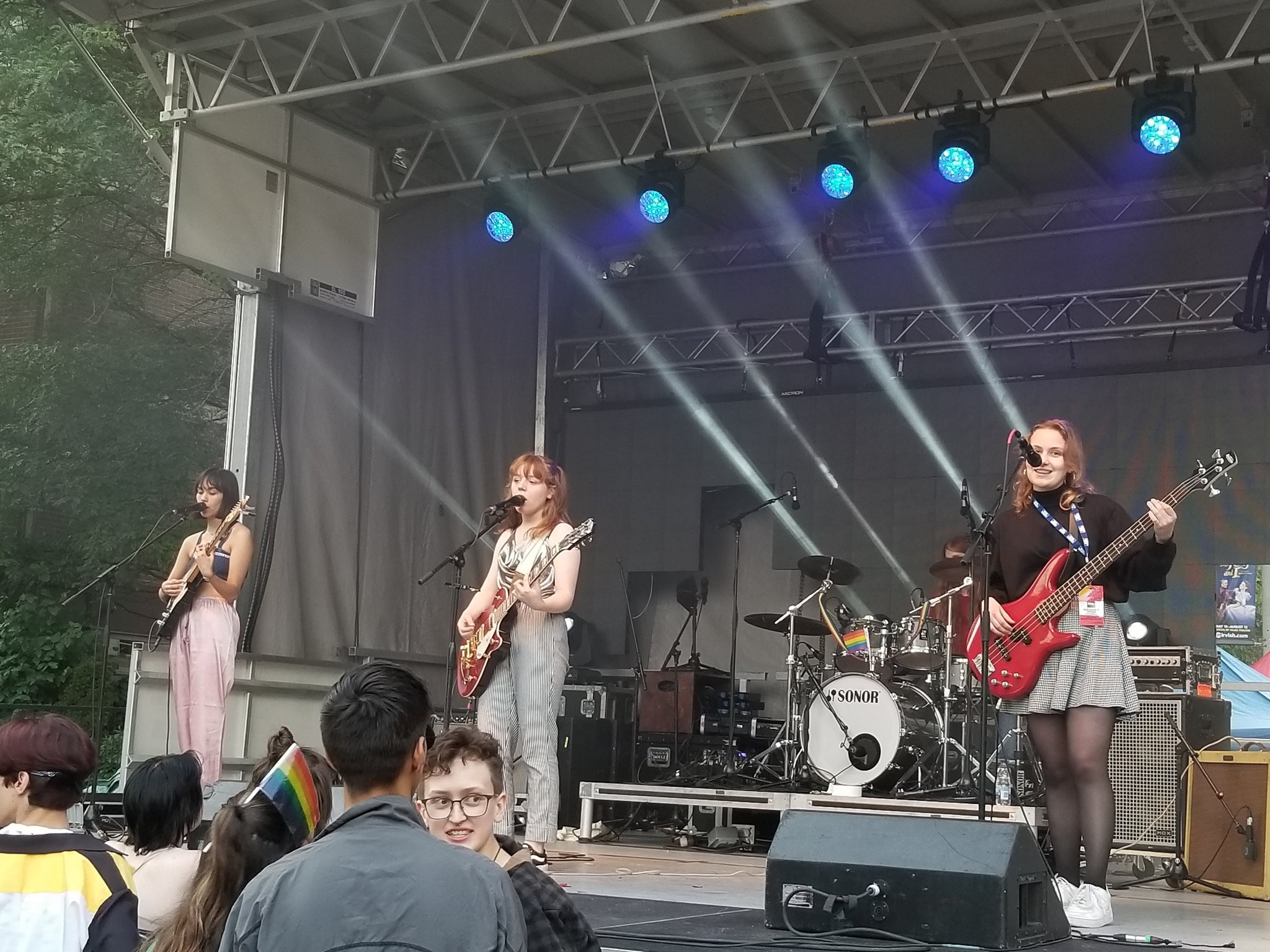 The band Moscow Apartment playing the Toronto Pride Festival at an outdoor stage in 2018.